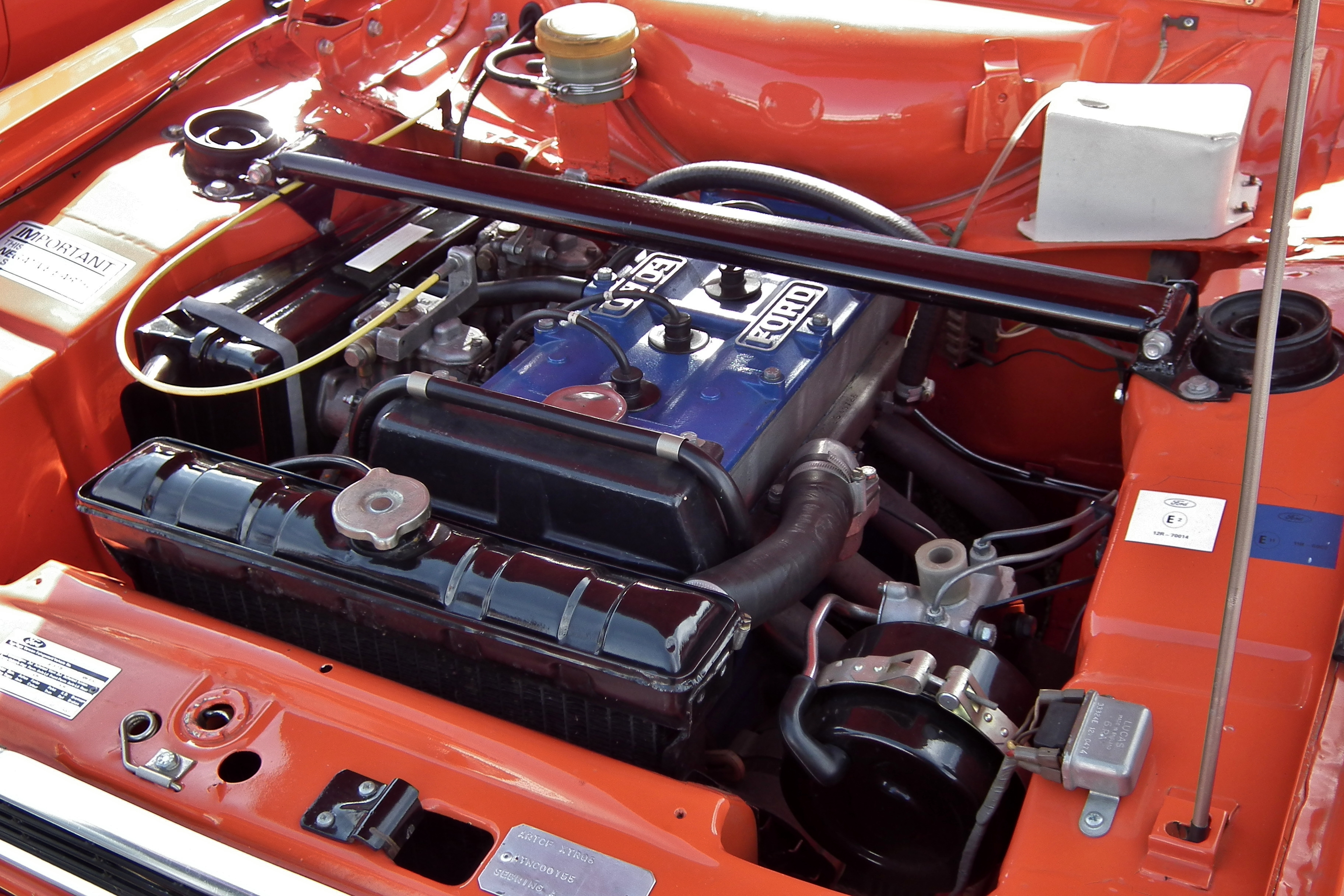 1974 Ford Escort Mk I RS 1600 sedan engine. Taken at the 2011 New South Wales All Ford Day, held at Eastern Creek Raceway.